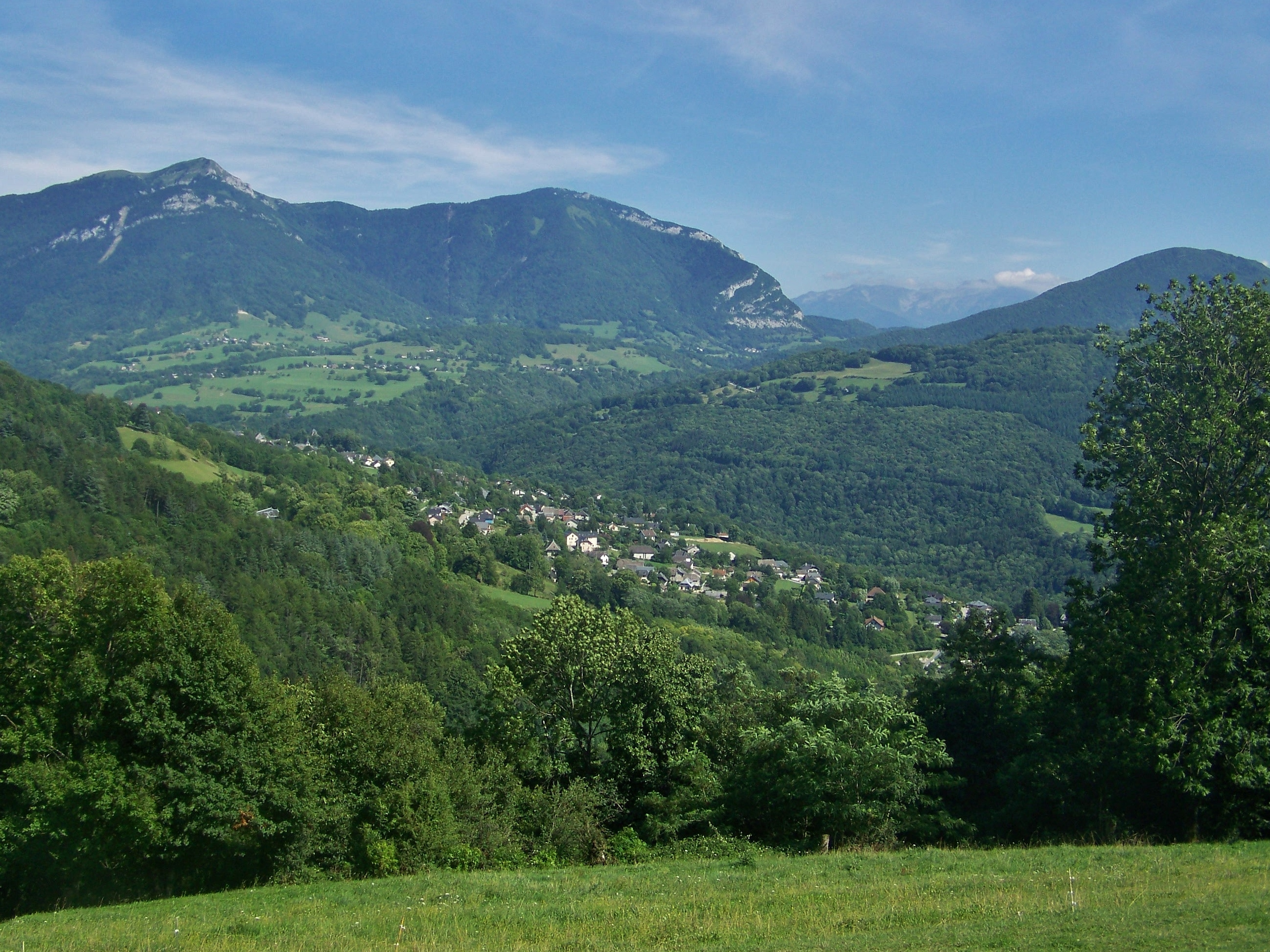 Panoramic view of Saint-Jean-d'Arvey in the south-western Bauges mountains, near Chambéry in Savoie, France.